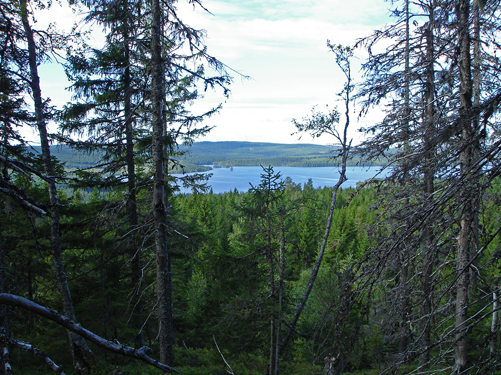 Lake Stor-Degersjön in Ångermanland, Sweden, viewed from the mountain Hästen in the east.